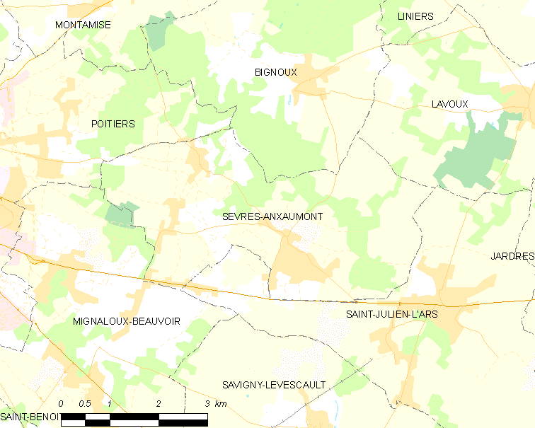 Map of French municipality Sèvres-Anxaumont